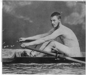 Charles Amos Messenger was the father of the renowned Dally Messenger, superstar of Rugby Union and Rugby League from 1902 to 1907 to 1914